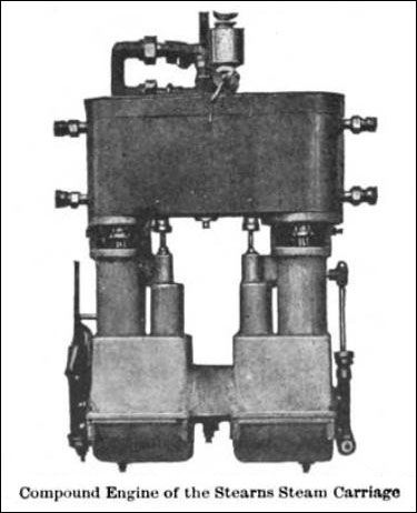 Stearns Compound Engine